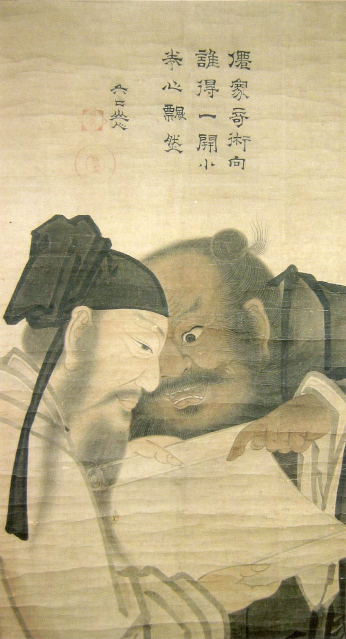 The Philosopher and the General, attributed to Kano Munenobu (1514-1562)